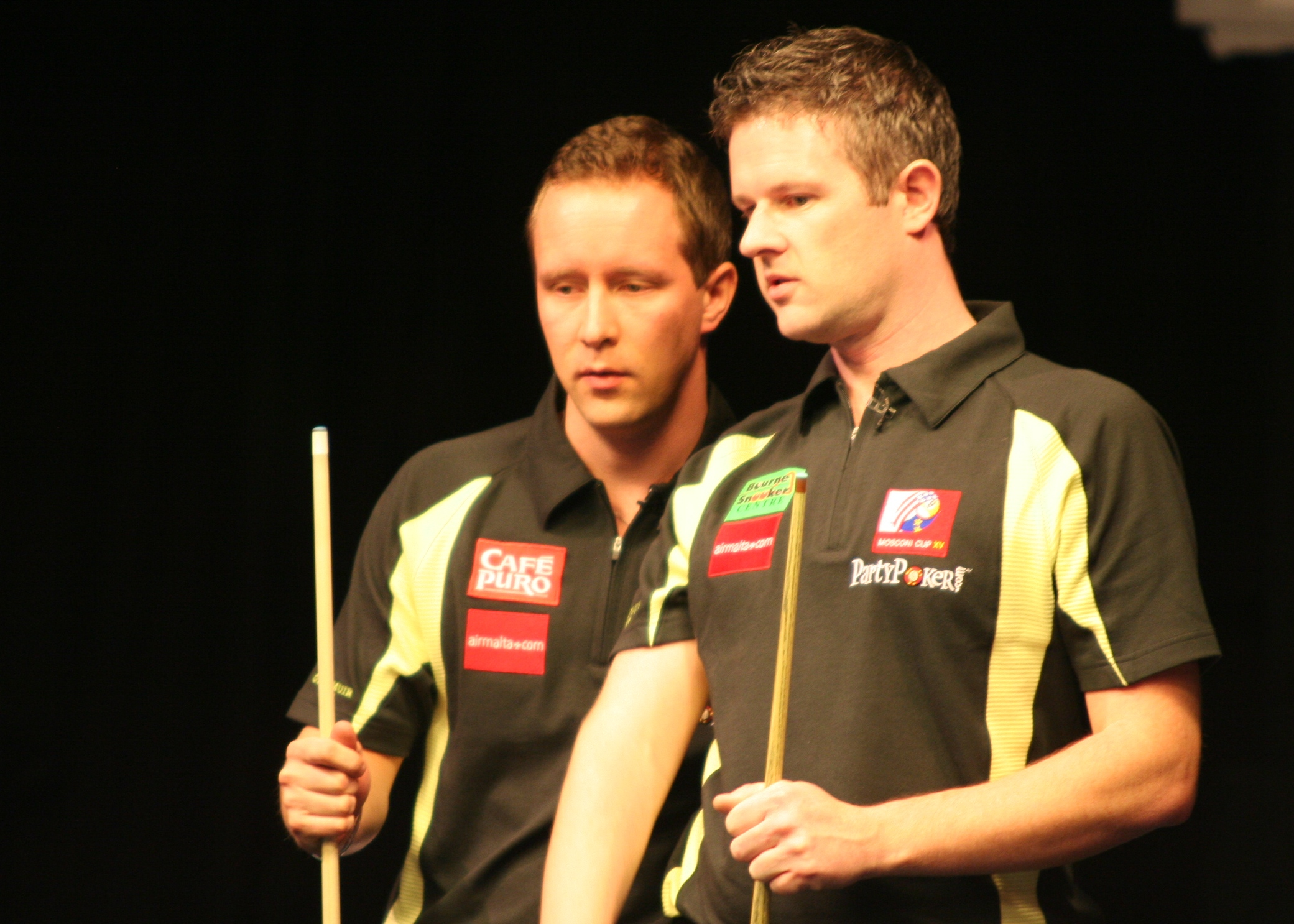 Finish pool player Mika Immonen and English pool player Mark Gray at the Mosconi Cup 2008 in Malta.